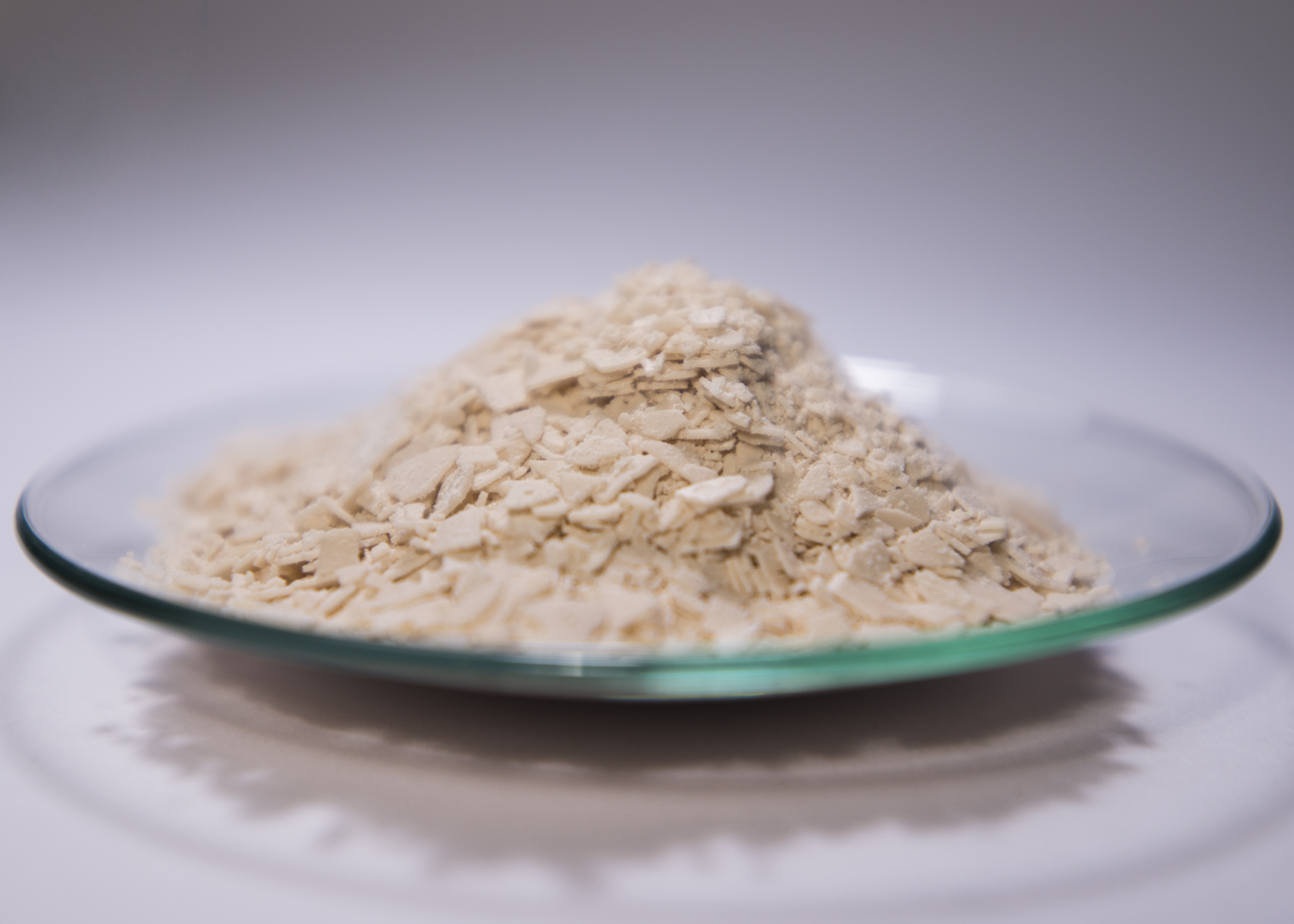 2-Naphthol, β-Naphthol